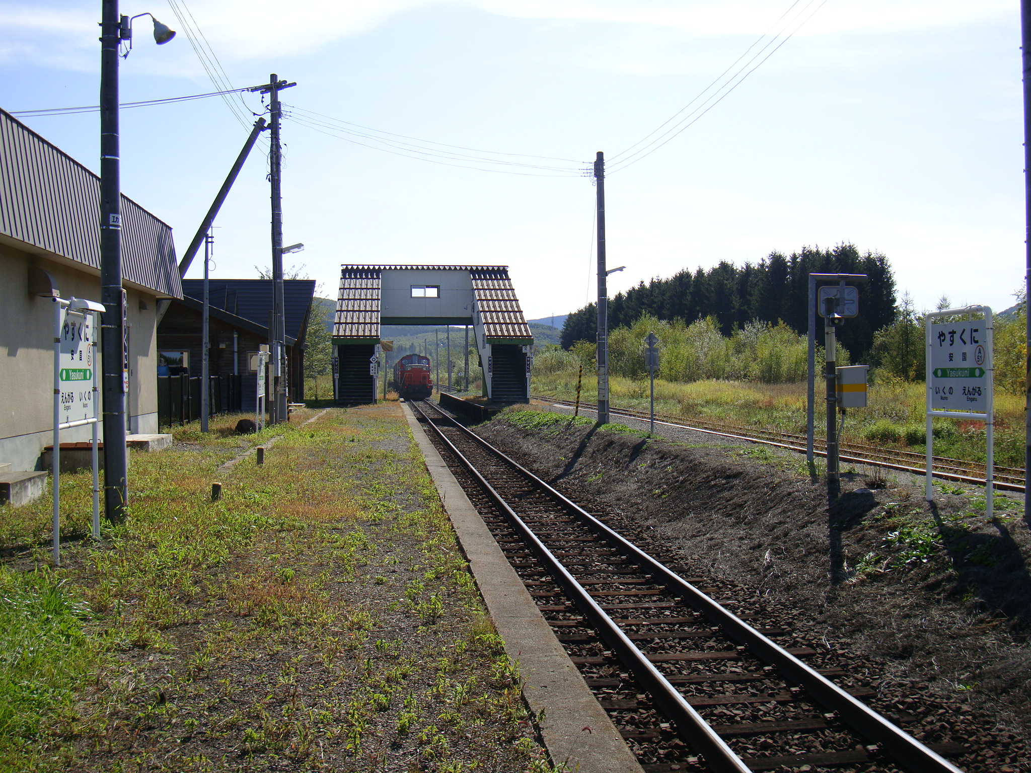 Yasukuni Station